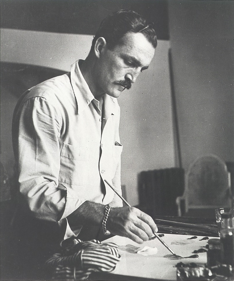 "Fletcher Martin at work in his studio." Peter A. Juley Collection, Image #J0083191. Cropped. The Peter A. Juley & Son Collection of photographs was donated to the Smithsonian American Art Museum.